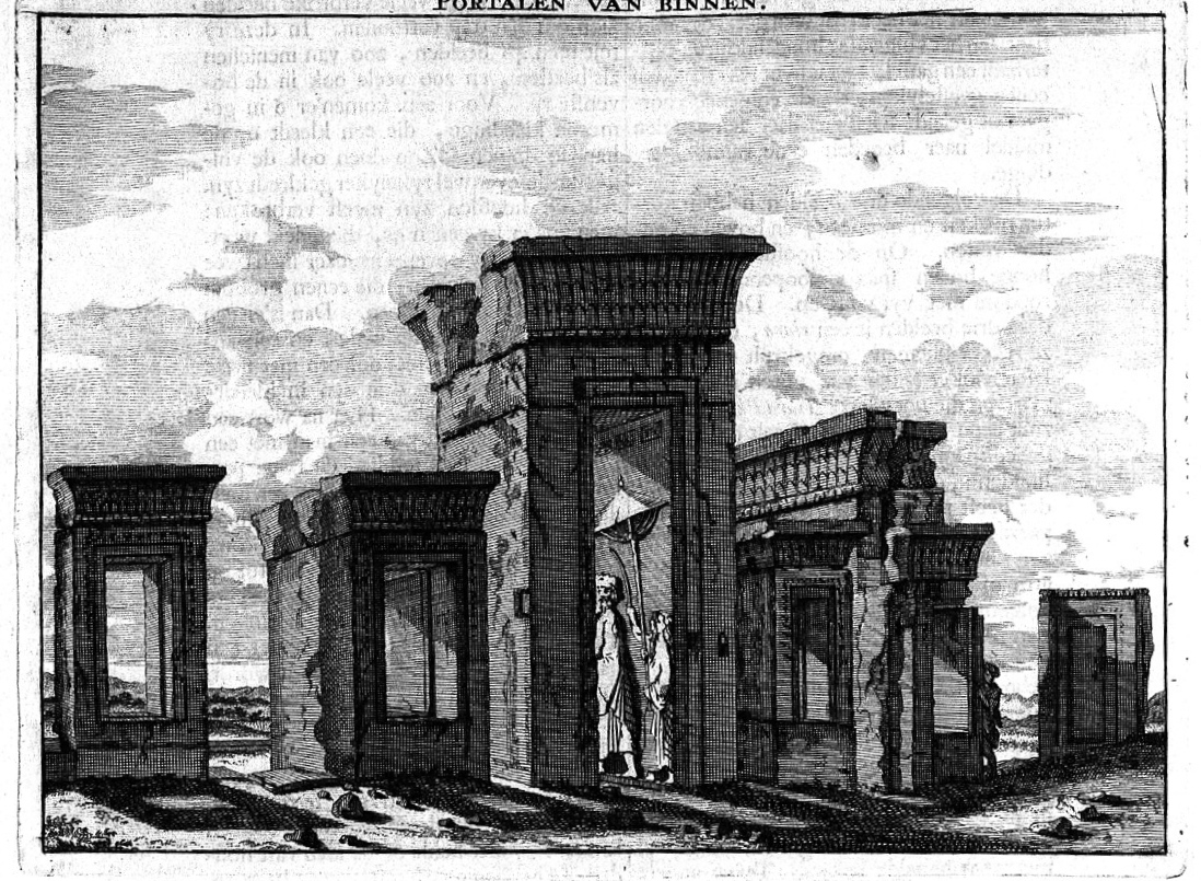 Picture of Persepolis by Cornelis de Bruyn from 1704. Published in his book Reizen over Moskovie, door Persie en Indie" (1711)